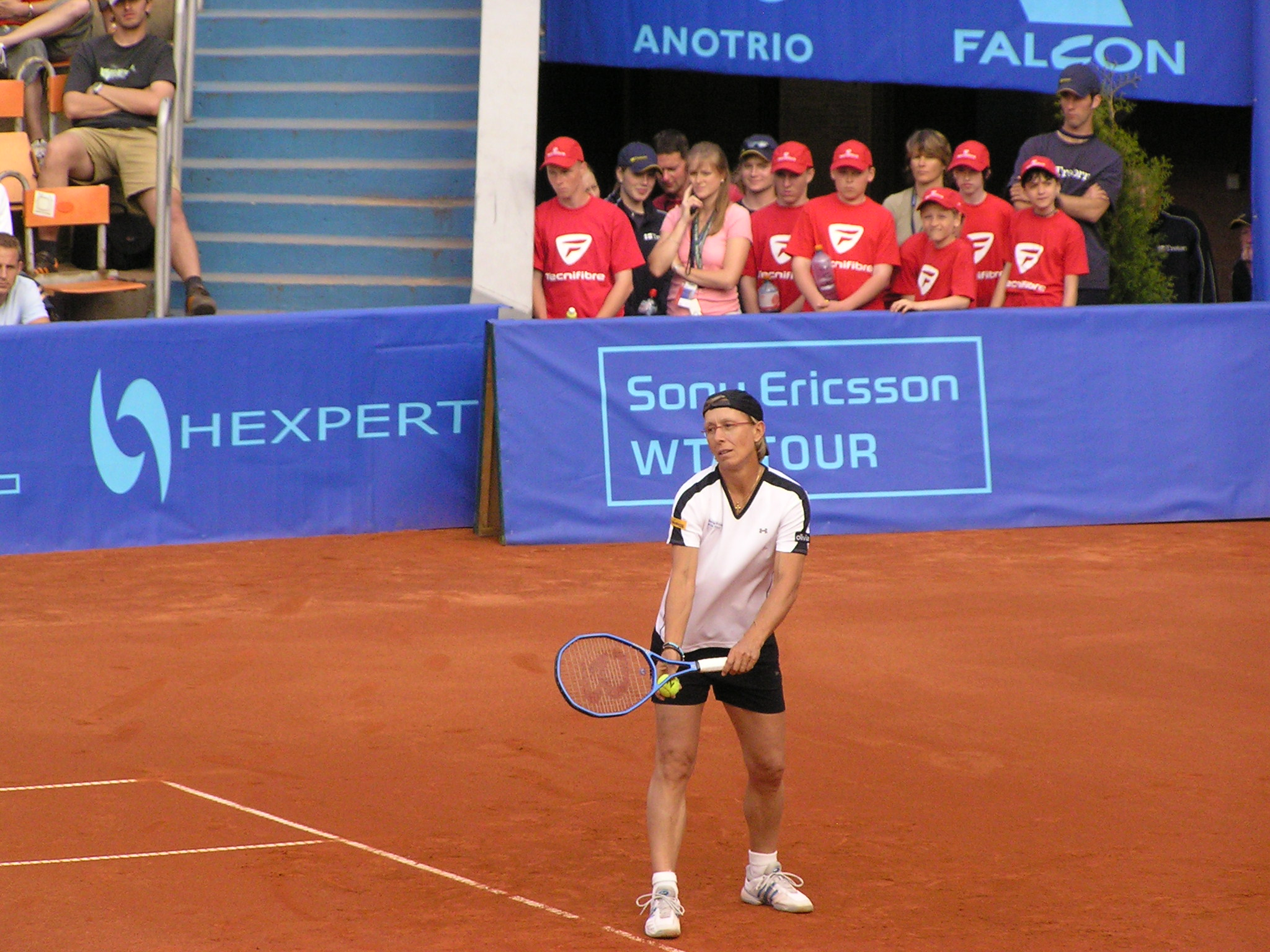 Martina Navrátilová ! Photo taken from ECM Prague Open 2006 ( - Prague, May 2006.